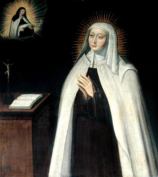 Marie of the Incarnation